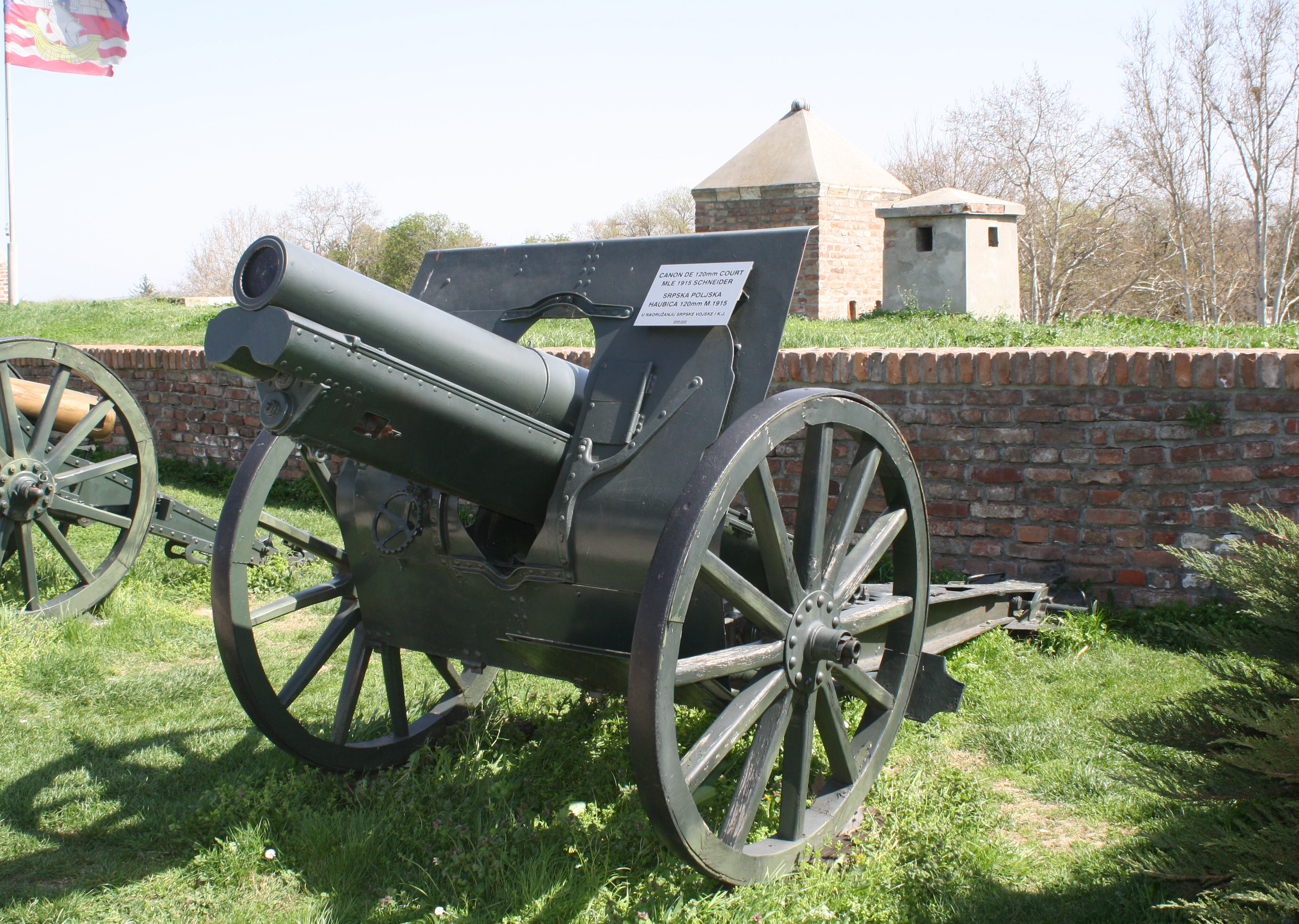 The French Canon de 120 court modèle 1915 Schneider, a 120 mm field howitzer used by Serbian Army in WWI, part of Belgrade Military Museum outer exhibition at Kalemegdan fortres.